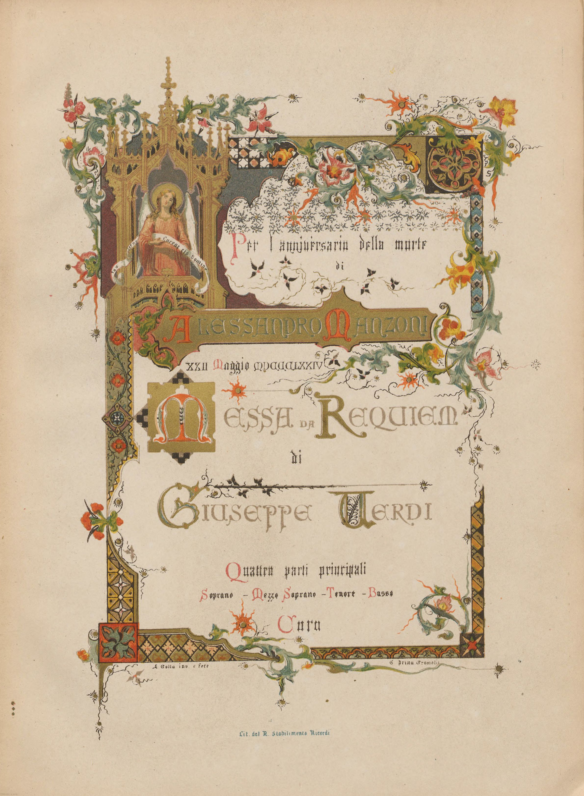 From Verdi, Giuseppe, 1813-1901. [Messa da Requiem. Vocal score]. Messa da Requiem / di Giuseppe Verdi ; riduzione per canto e pianoforte di Michele Saladino ; traduzione italiana, : versi del Angelo Fava ; prosa del Claudio Borri. Milano : Ricordi, [1874?]. Merritt Mus 857.1.403.3 PHI